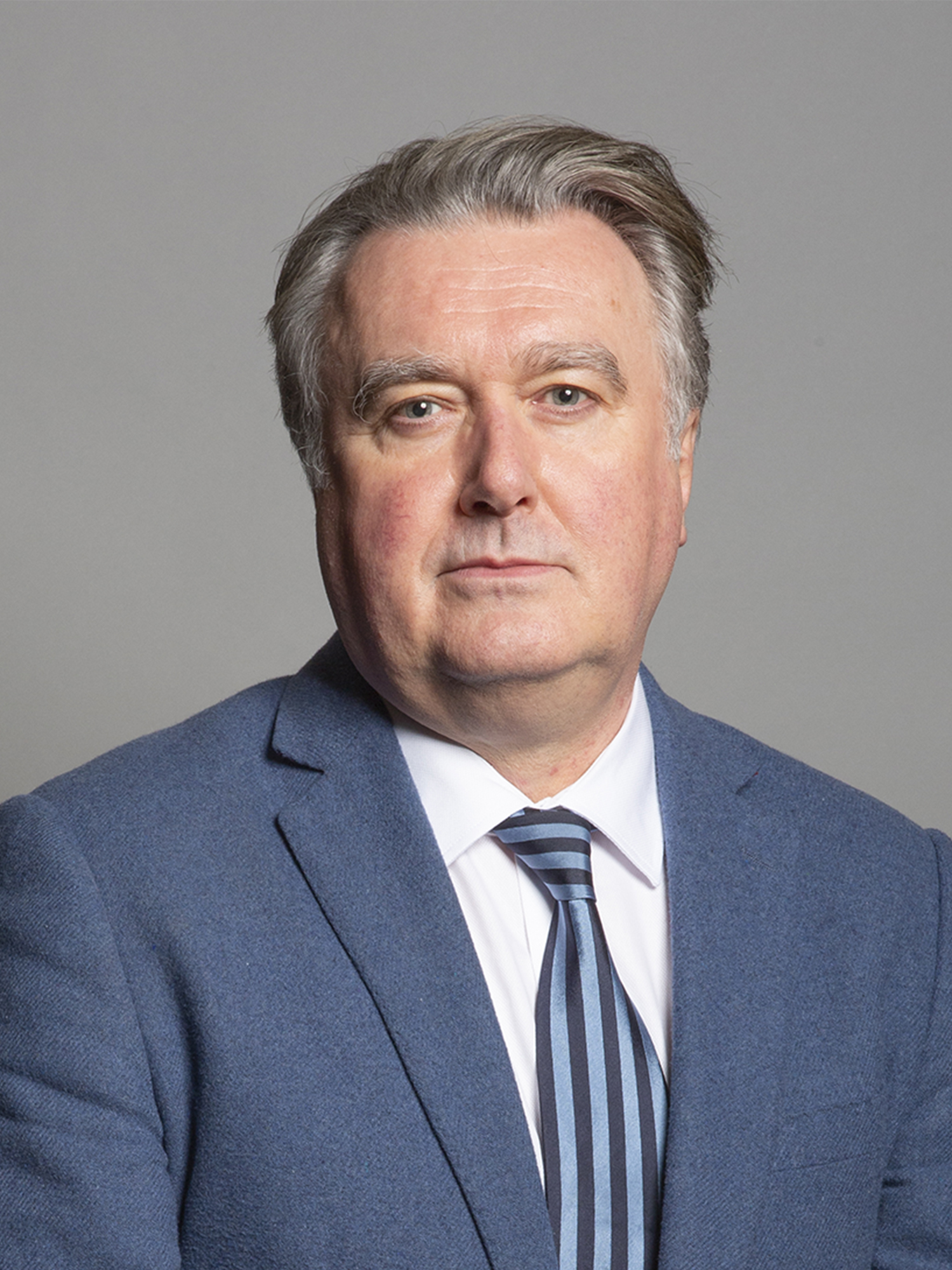 Official portrait of John Nicolson MP 3×4 portrait of John Nicolson